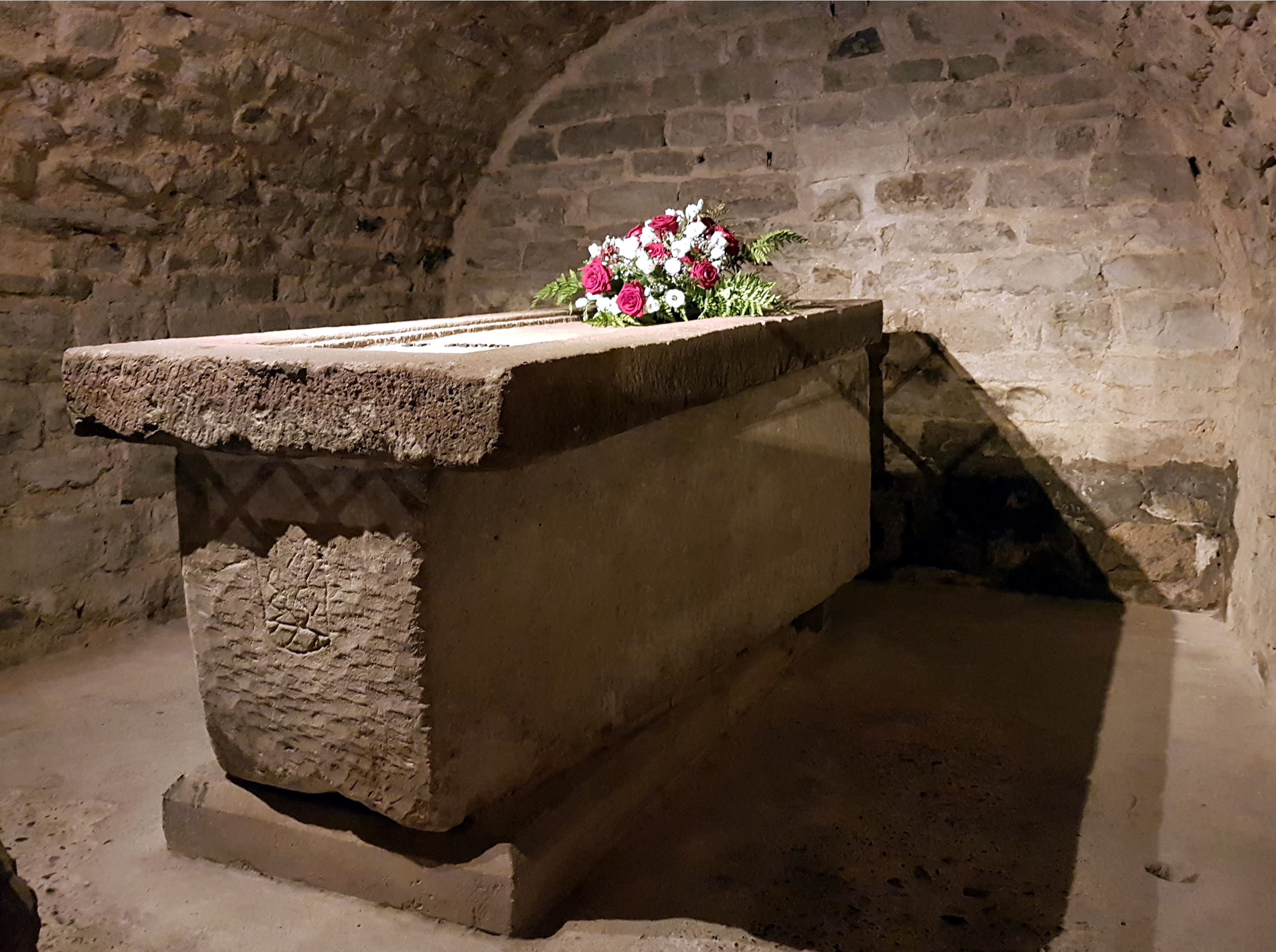 View of the so-called sarcophagus of Saint Servatius in the crypt of the Basilica of Saint Servatius in Maastricht, Netherlands. The picture was taken through the wrought iron gate separating the so-called small crypt from the crypt of Saint Servatius. The sarcophagus is Frankish and was placed here at some point in the 20th century. It is unlikely to have anything to do with Saint Servatius, who died in the late 4th century. Normally, the small crypt cannot be accessed but at this special occasion, the 2018 Heiligdomsvaart ("Relics Pilgrimage"), it is open for pilgrims to visit. The history of the Heiligdomsvaart goes back to the Middle Ages. The first 'modern' version of this seven-yearly, ten-day catholic pilgrimage took place in 1874. The 2018 Heiligdomsvaart was the 55th modern edition.